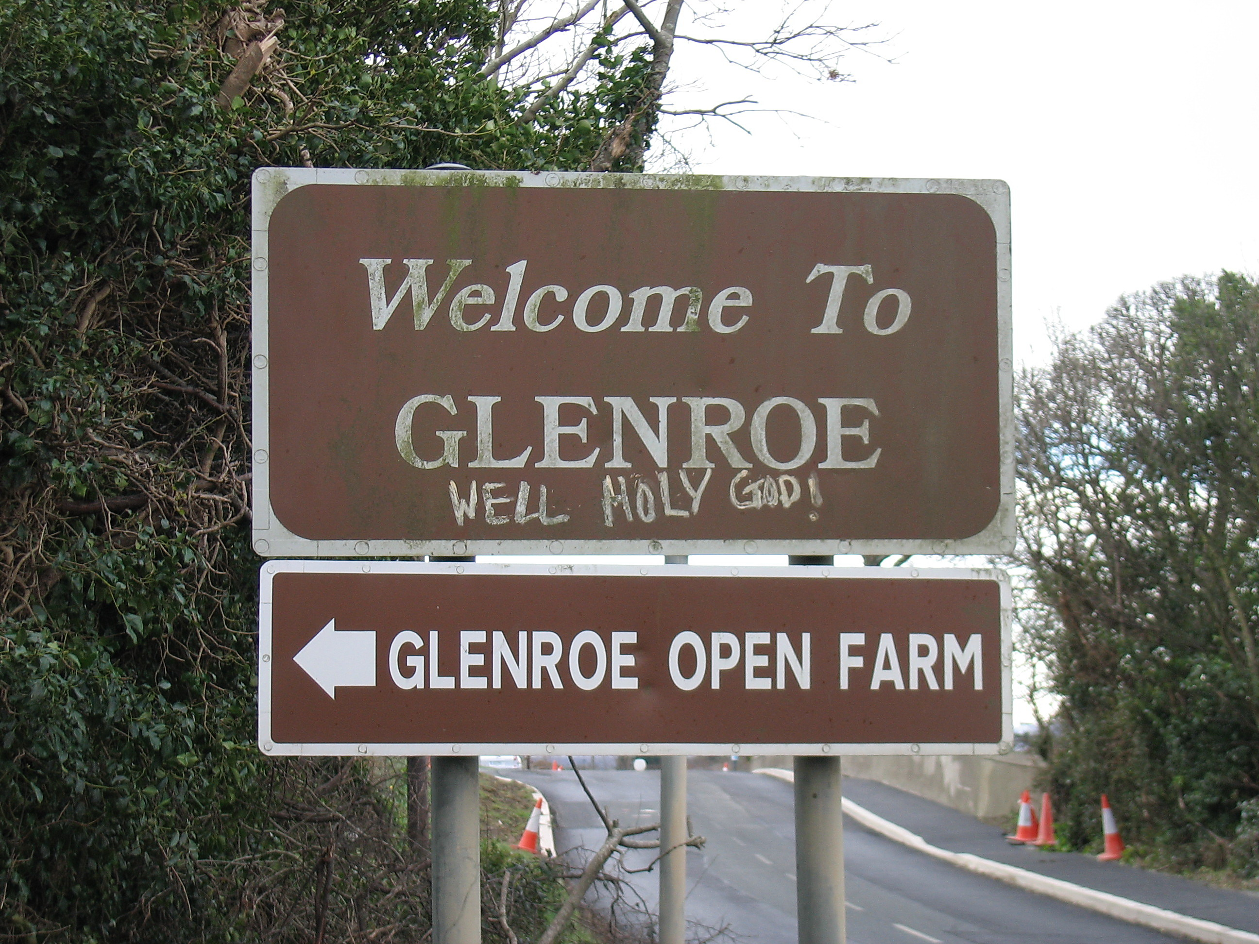 Sign approaching Kilcoole in County Wicklow (Sarah777 01:58, 20 March 2007 (UTC))